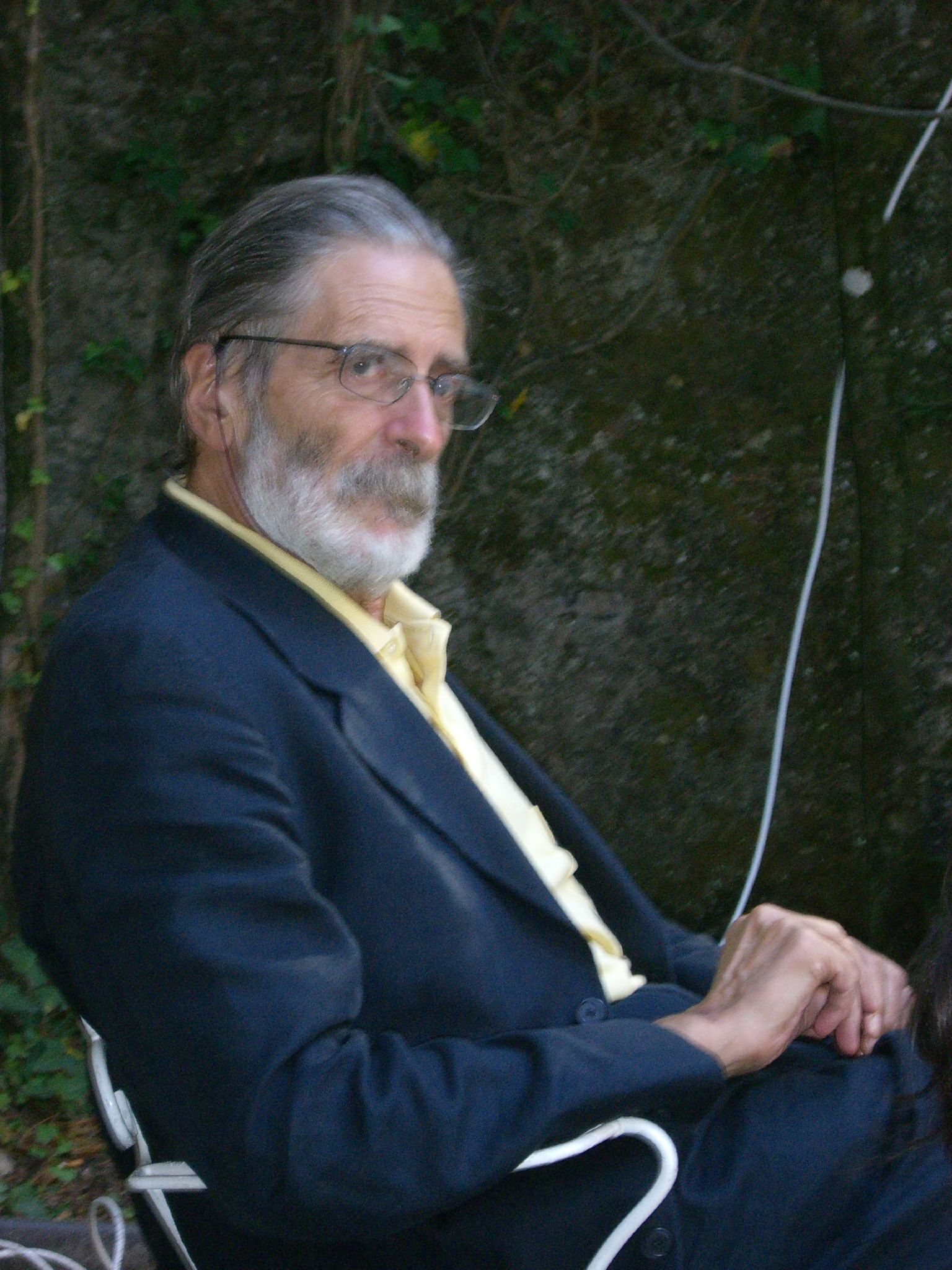 Ettore Borzacchini